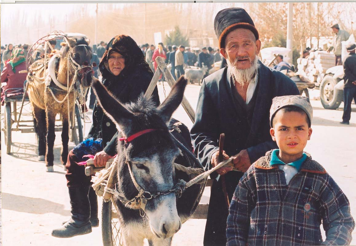 Uyghur elders, sunday market, Kashgar.